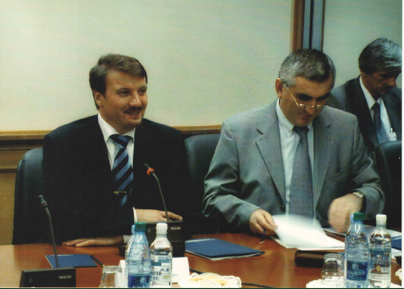 Обсуждение позиций России на саммите в Юханесбурге 2002 г.